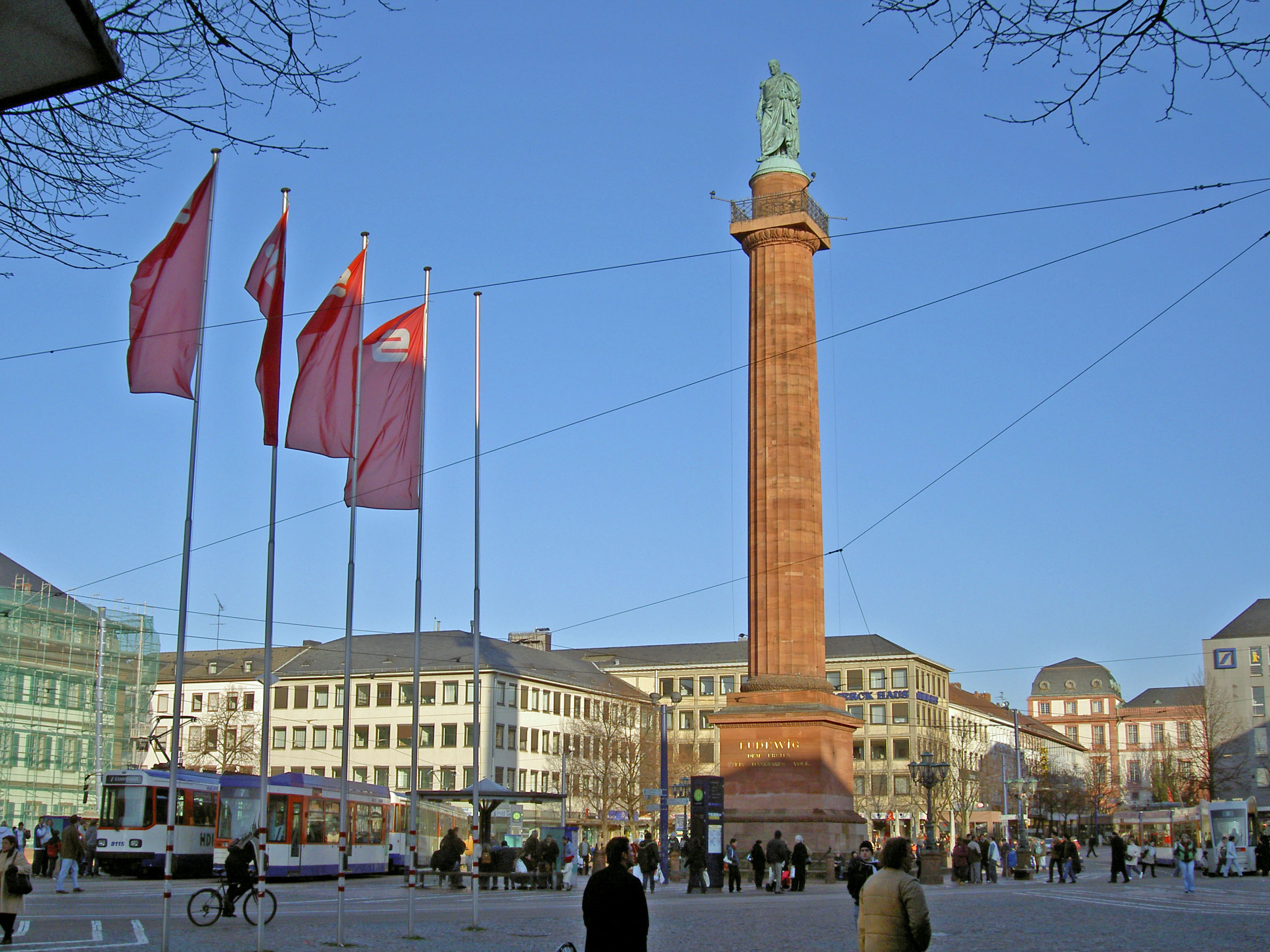 Germany, Darmstadt, Ludwig Memorial